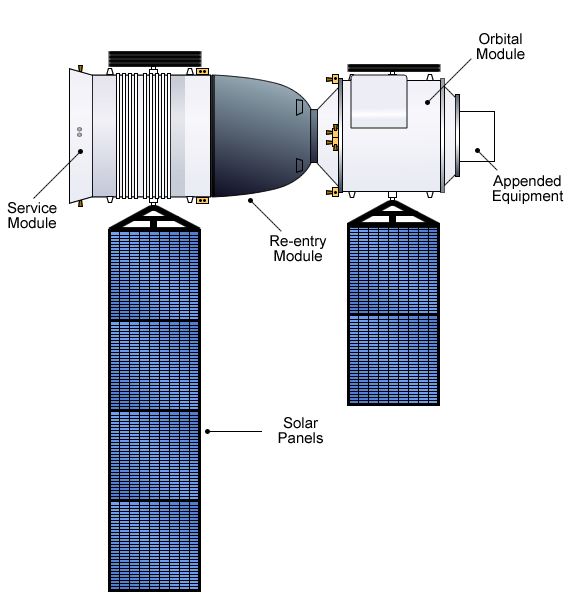 Diagram illustrates the modules of Shenzhou spacecraft